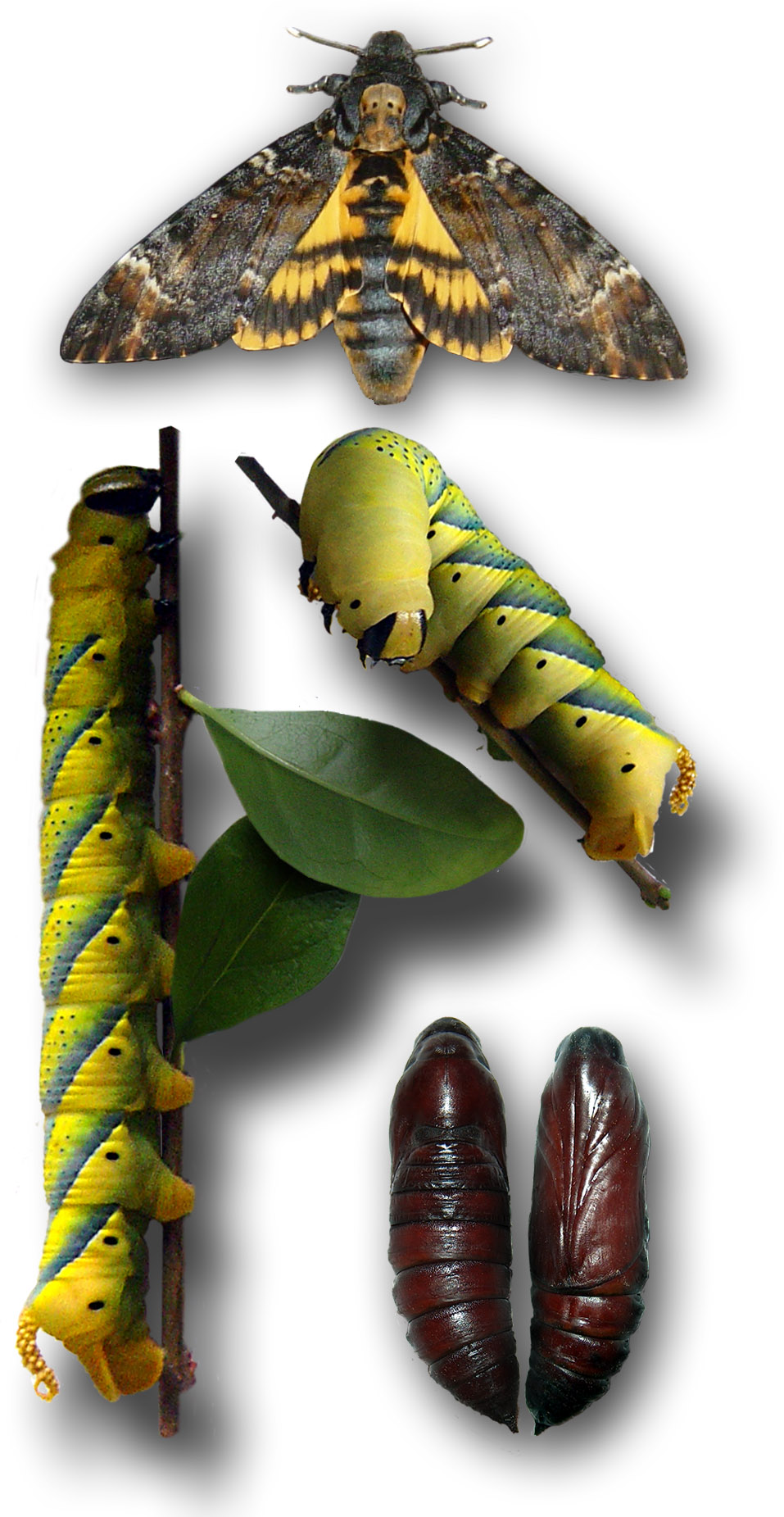 Acherontia atropos (Linnaeus, 1758) en : adult and 2 Deaths-head Hawk-moth larvae (about 2 weeks old). from : j9dw